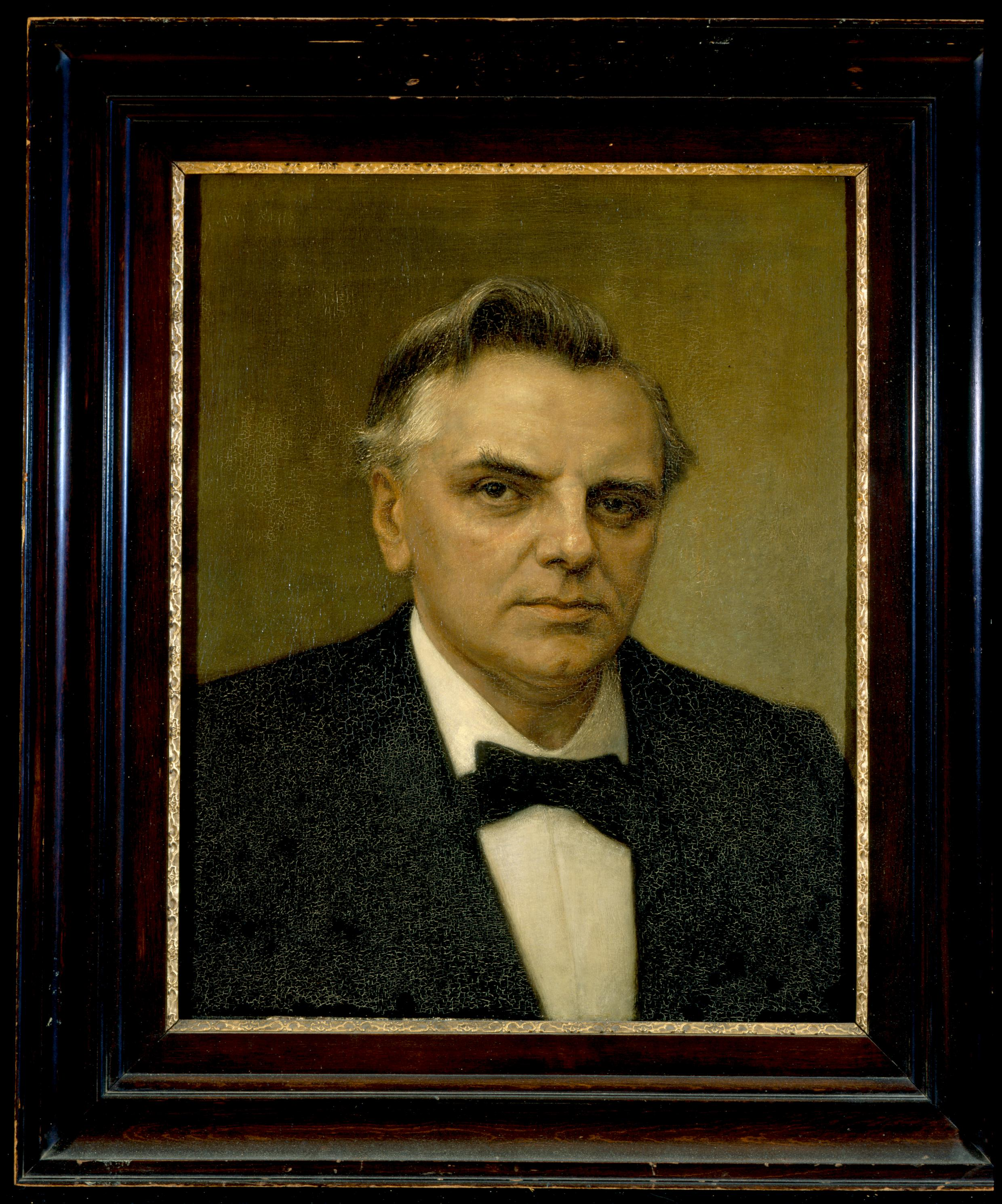 Cornelis Bellaar Spruyt, Dutch astronomer. Painting by Jan Veth. Collection University of Amsterdam